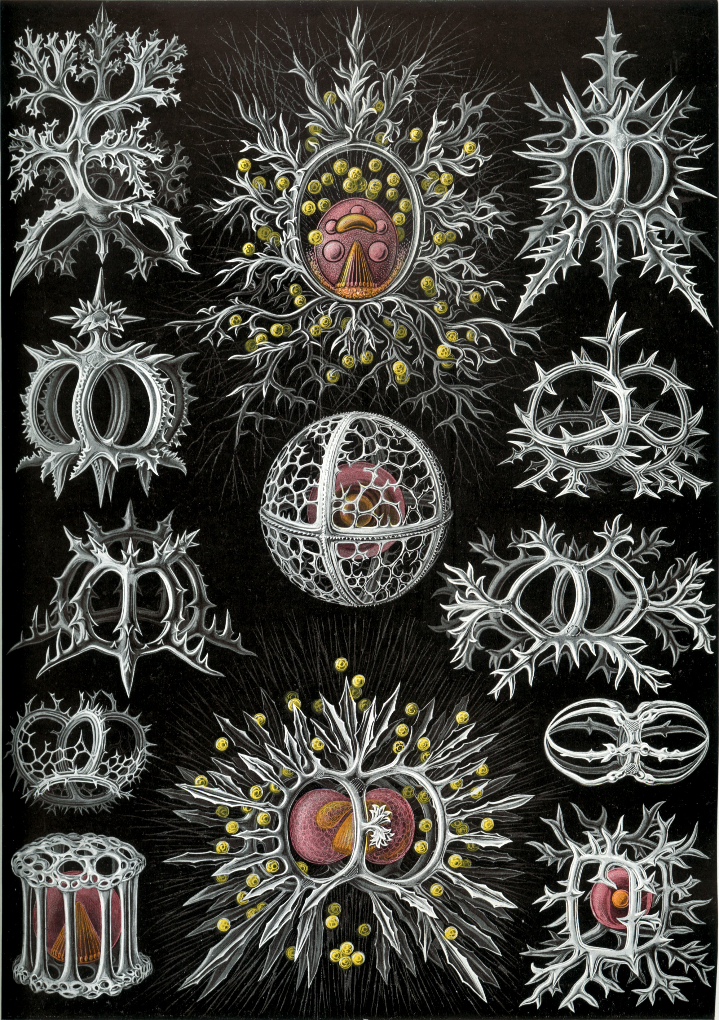 (top center): Lithocircus magnificus (Haeckel) = Lithocircus sp.?, living animal (top left): Semantis sigillum (Haeckel) = Tholospyris procera Goll, 1969?, skeleton of juvenile (bottom left, upper): Acanthodesmia corona (Haeckel) = Acanthodesmia sp?, skeleton (center right, upper): Tristephanium dimensivum (Haeckel) = Tristephanium dimensivum Haeckel, 1887?, skeleton (center): Trissocyclus sphaeridium (Haeckel) = Trissocyclidae sp.?, living animal (center right, lower): Octotympanum cervicorne (Haeckel) = Acanthodesmia viniculata (Müller, 1857)?, skeleton (bottom right, upper): Microcubus zonarius (Haeckel) = Amphispyris zonarius (Haeckel, 1887)?, skeleton (top right): Tympaniscus tripodiscus (Haeckel) = Trissocyclidae sp.?, skeleton (center left, upper): Tympaniscus quadrupes (Haeckel) = Trissocyclidae?, skeleton (bottom center): Tympanidium foliosum (Haeckel) = Tympanidium foliosum Haeckel, 1887, living animal (bottom left, lower): Lithotympanum tuberosum (Haeckel) = Lithotympanum tuberosum Haeckel, 1887, living animal (center left, lower): Circotympanum octogonium (Haeckel) = Nassellaria sp.?, skeleton (bottom right, lower): Lithocubus astragalus (Haeckel) = Lithocubus ap., living animal